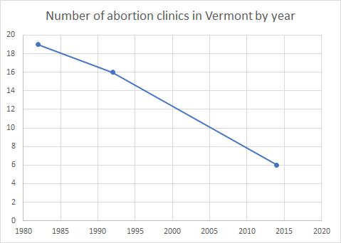 Number of abortion clinics in Vermont by year. Data is from articles linked at